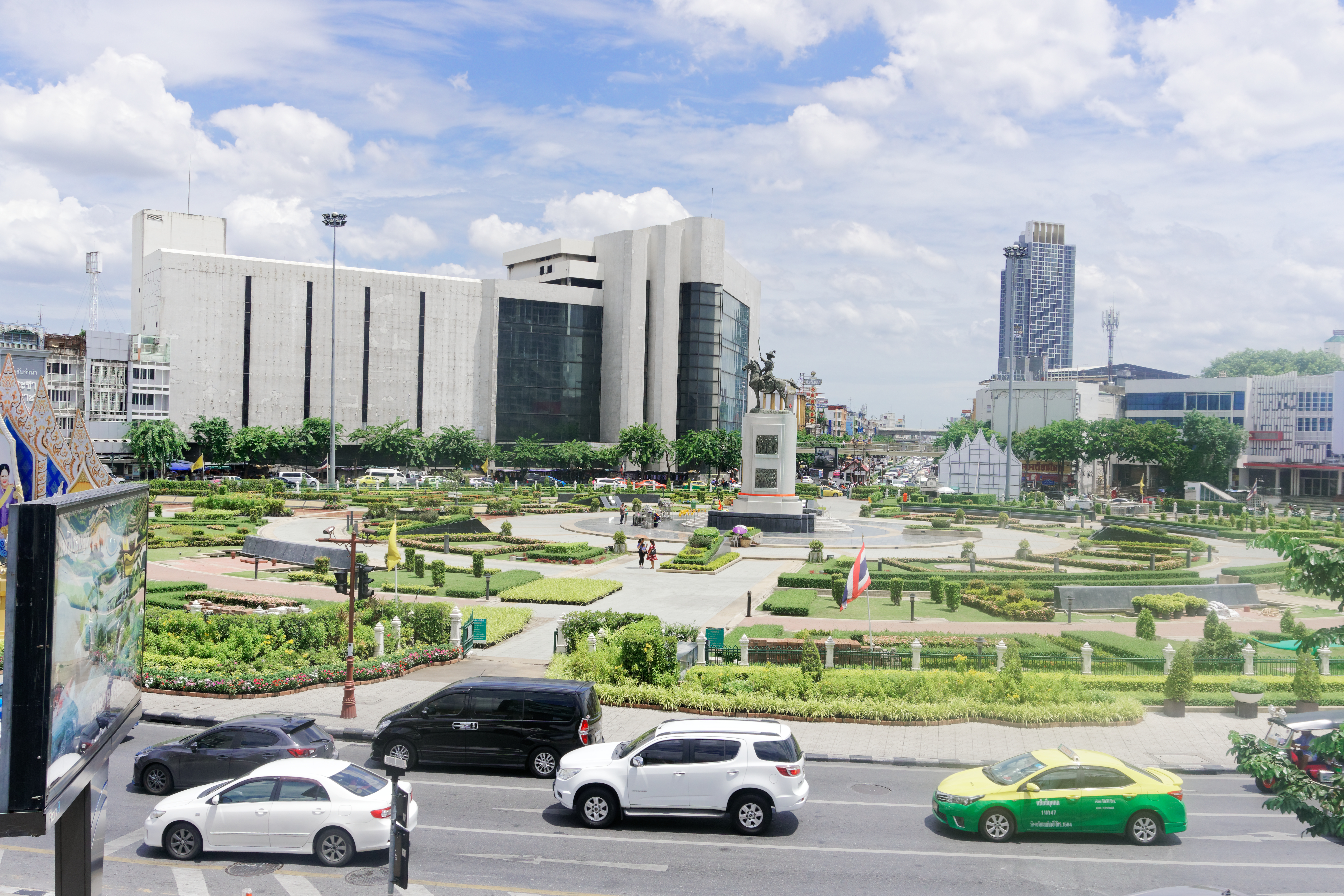 King Taksin's statue (View from Prachathiphok rd.)